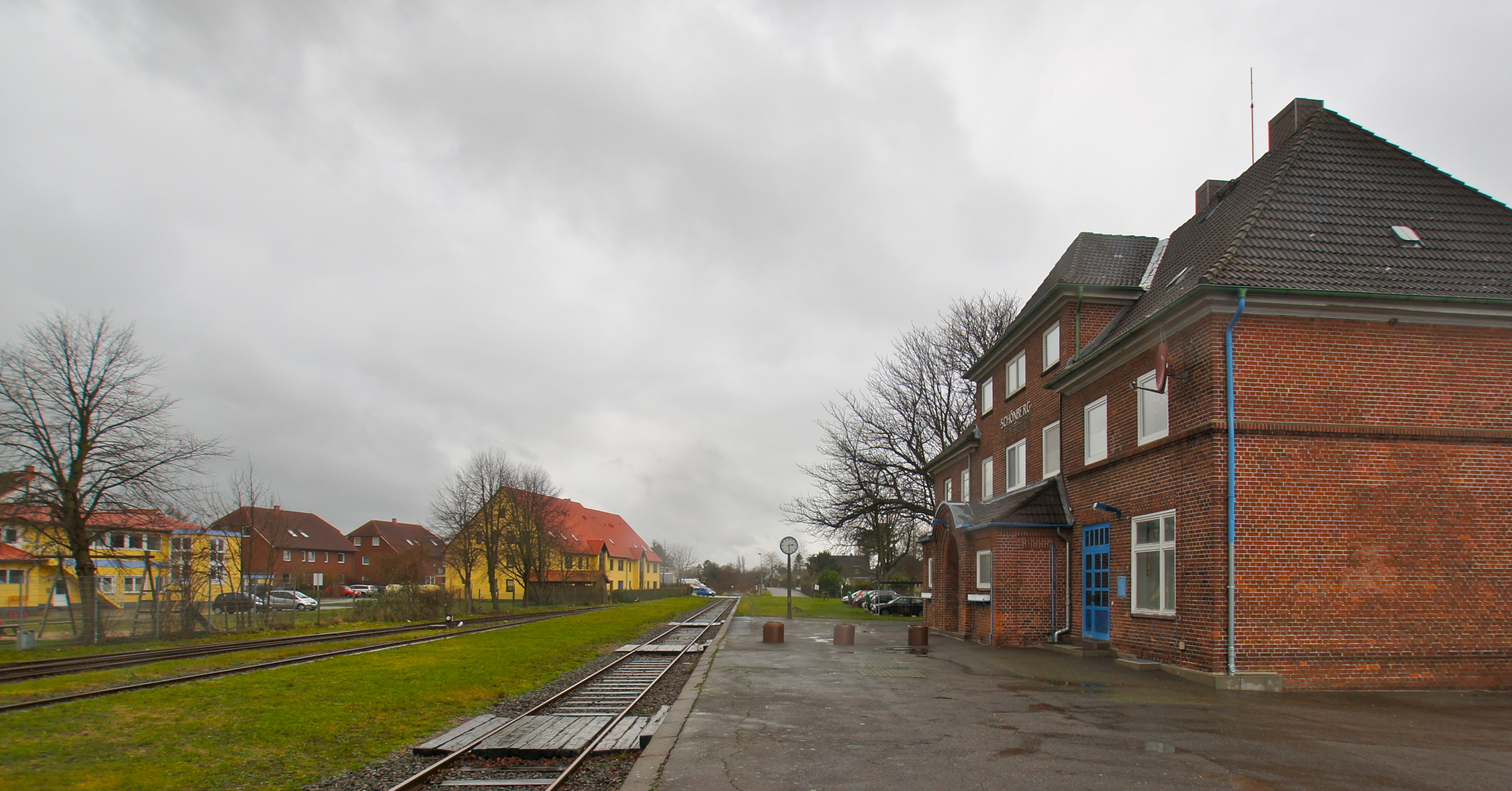 Schönberg (Holstein) (Salzderhelden), Germany: Railway station